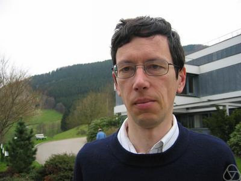 Jiri Matousek, Oberwolfach 2005